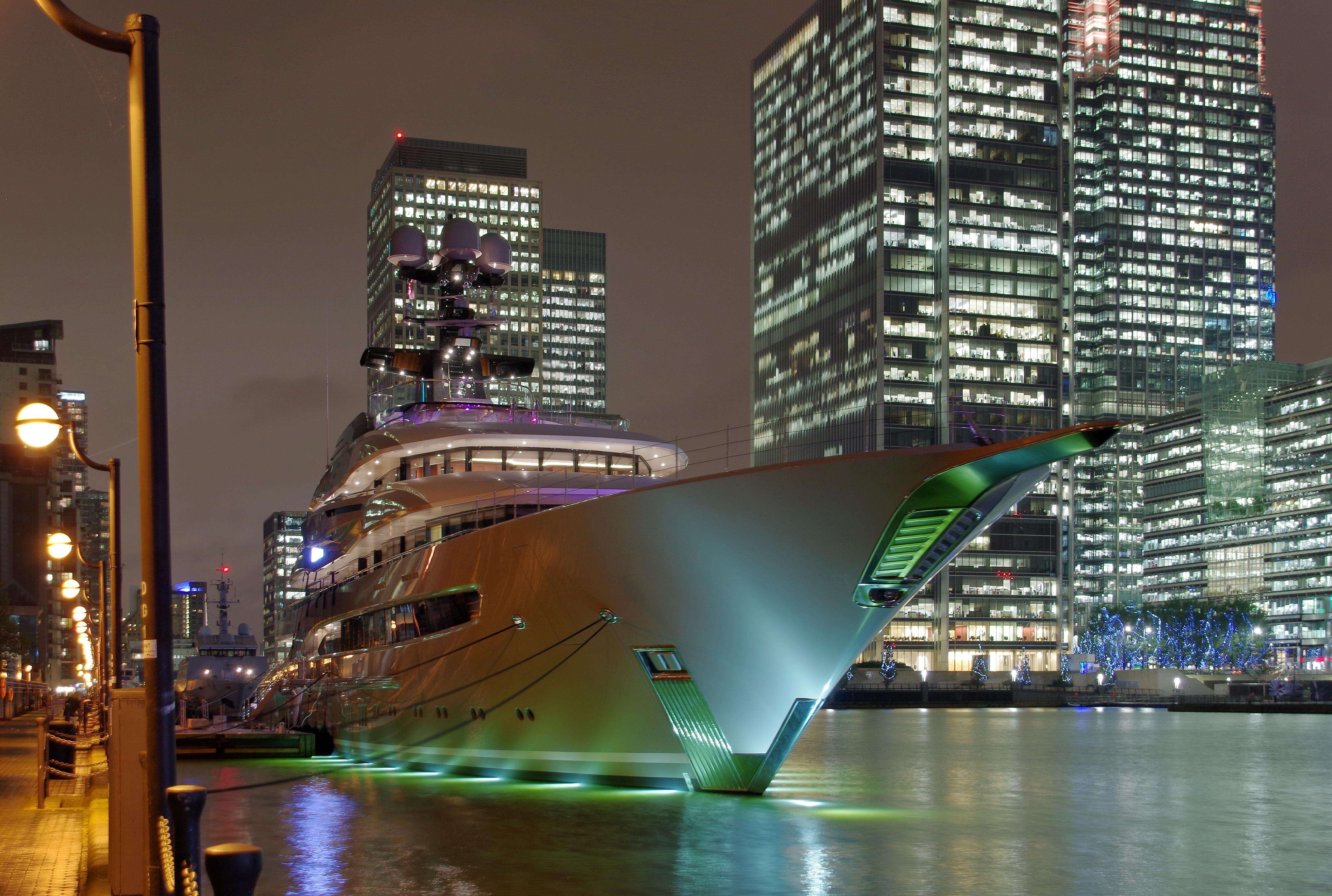 The pleasure cruiser "Kismet" moored on the City Canal in Canary Wharf. She is the most beautiful boat I have ever seen.